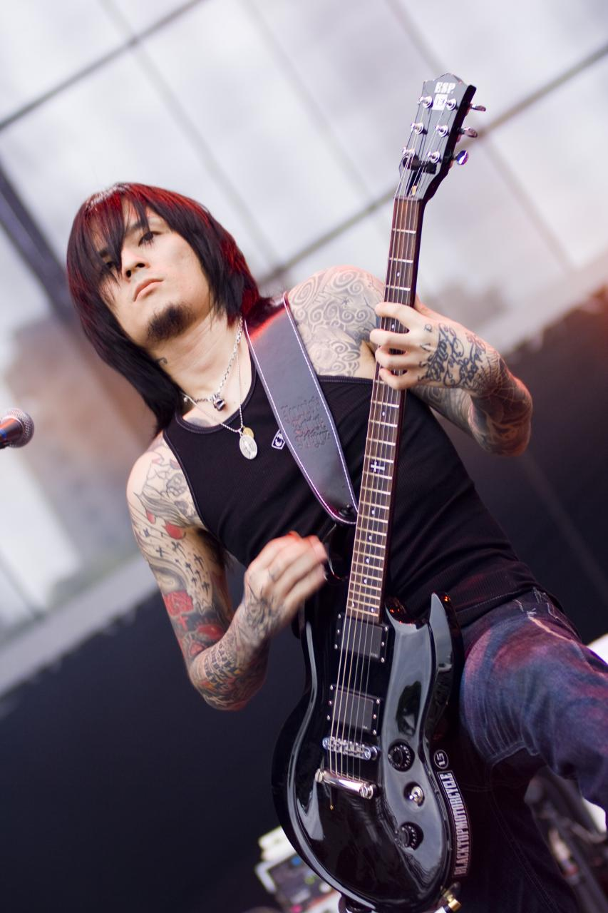 Kaoru, guitarist of Dir en grey, performing at Maquinaria Festival in Brazil.